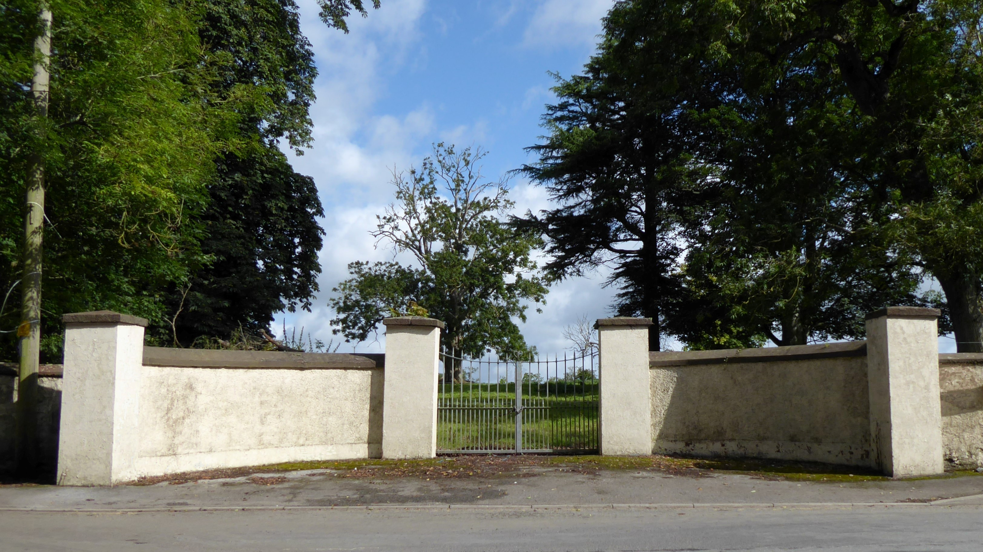 Driveway entrance to Rowlestown House and gardens